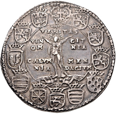 GERMANY, Braunschweig-Wolfenbüttel (Fürstentum). Heinrich Julius. 1589-1613. AR Taler (42mm, 29.12 g, 12h). Wahrheits type. Goslar mint. Dated 1597. Four-line legend and date / Allegory of Truth victorious over Deceit and Lies; all within border of coats-of-arms. Welter 629; Davenport 9091. Good VF, toned.